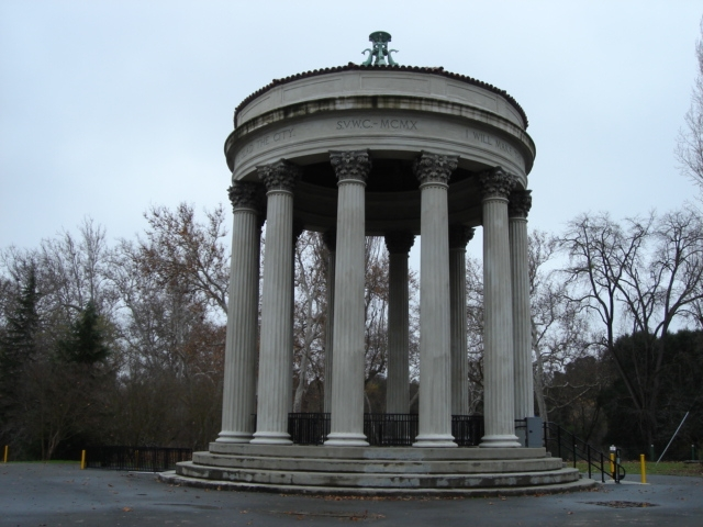 I took this picture in Sunol, California ike9898 19:57, 14 January 2006 (UTC)